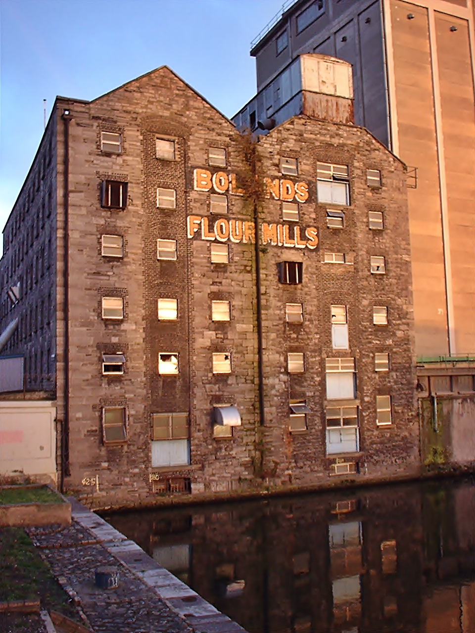 Boland's Flourmills, Dublin. Also known as Boland's Mills, part of the 1916 Easter Rising took place here.